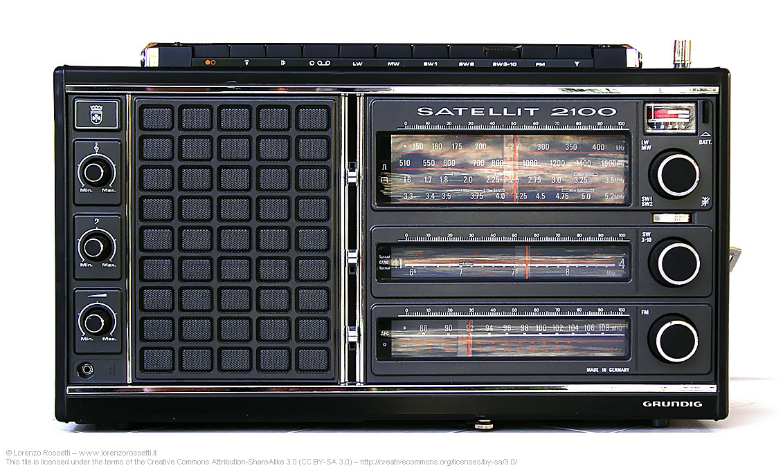 Analogue radio receiver Grundig Satellit 2100 for LW, MW, SW and FM (1976-1979)